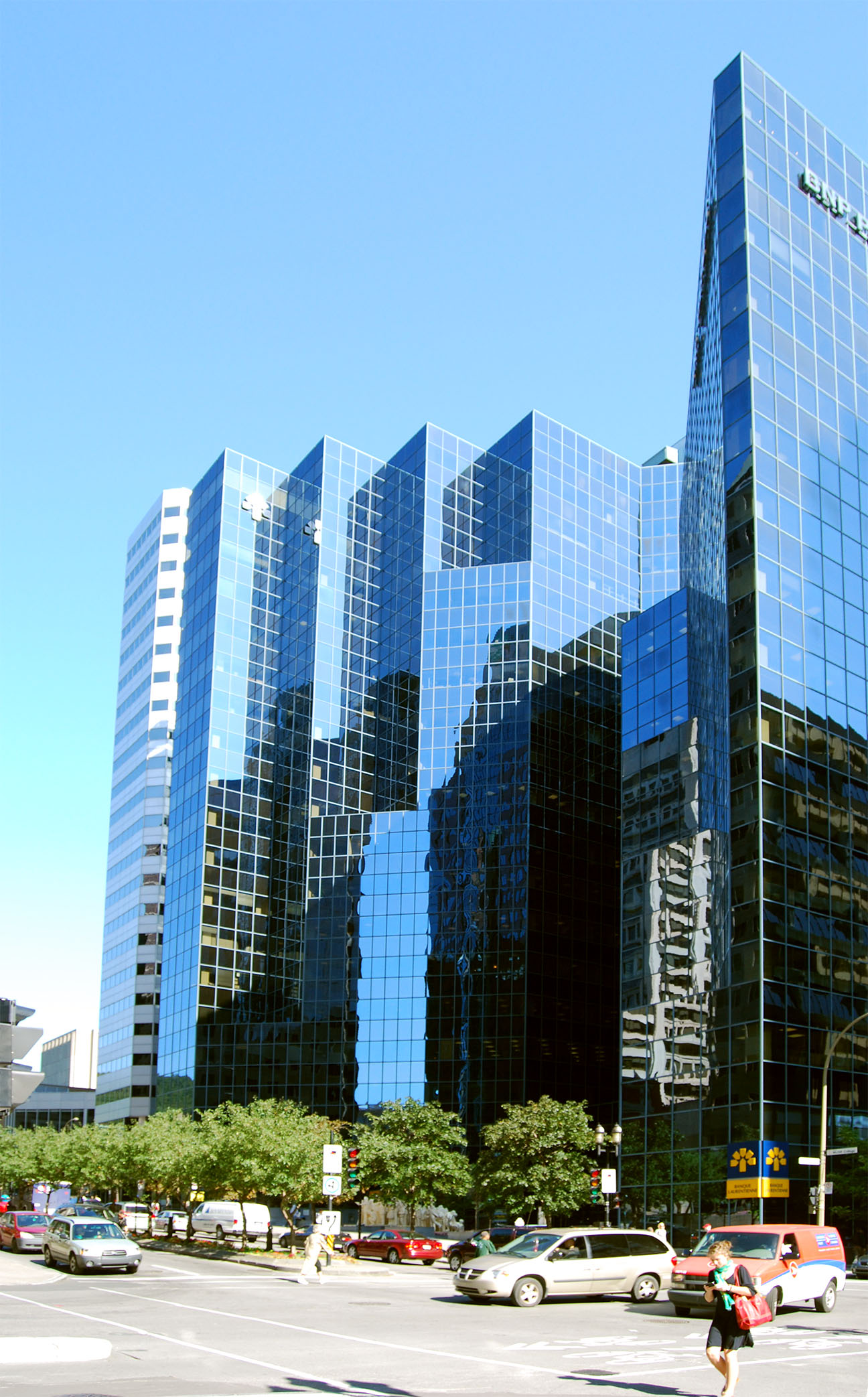 1981 McGill College avenue, Montreal. The head office of the Laurentian Bank of Canada